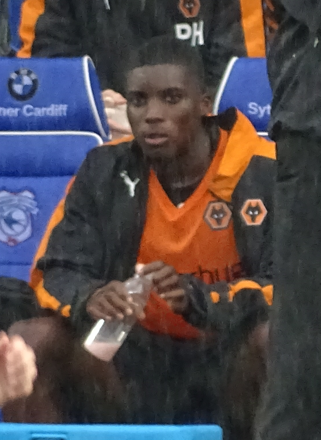 England youth international association footballer, here as a player of Wolverhampton Wanderers.